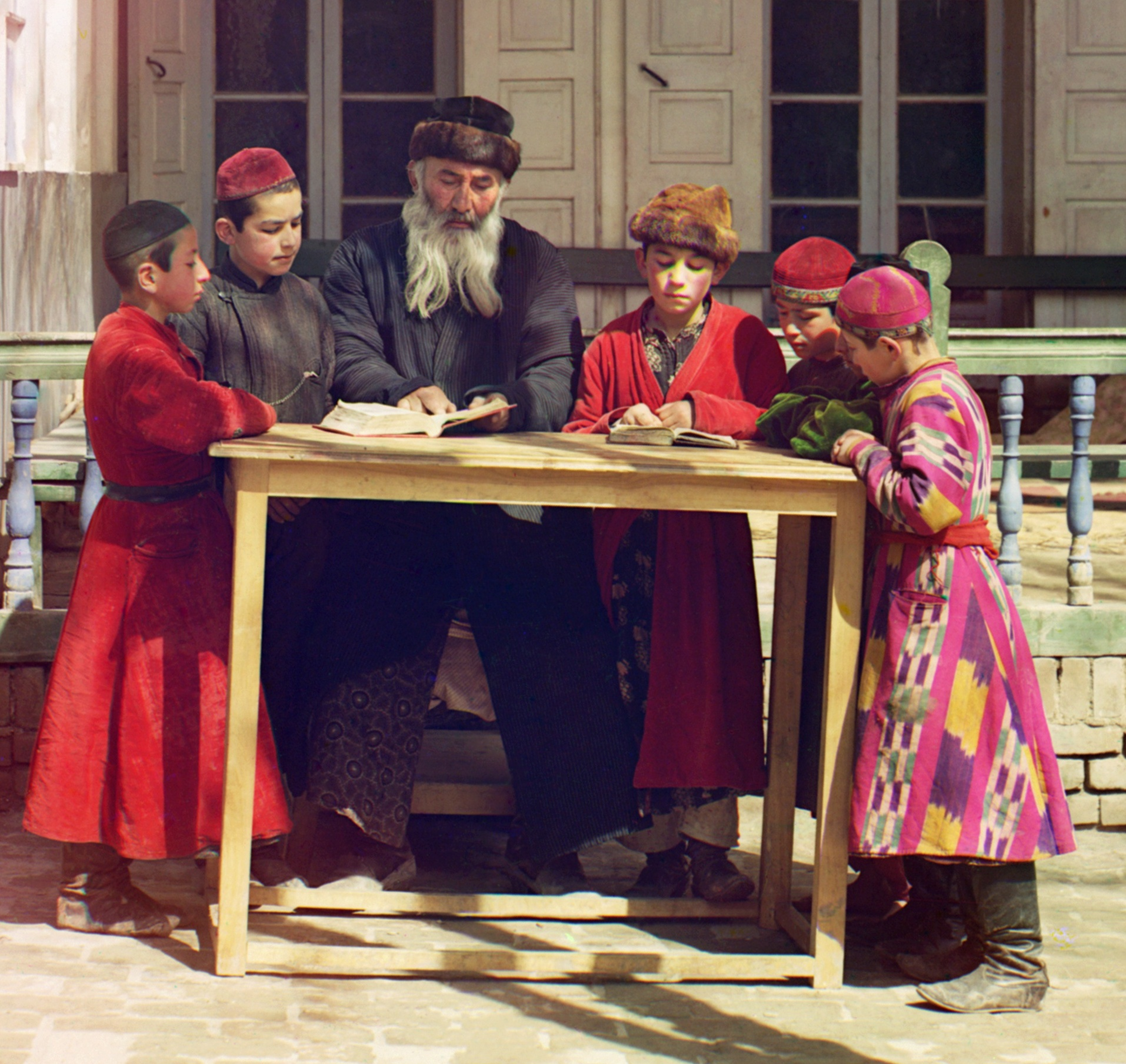 Jewish Children with their Teacher in Samarkand. Early color photograph from Russia, created by Sergei Mikhailovich Prokudin-Gorskii as part of his work to document the Russian Empire from 1909 to 1915.